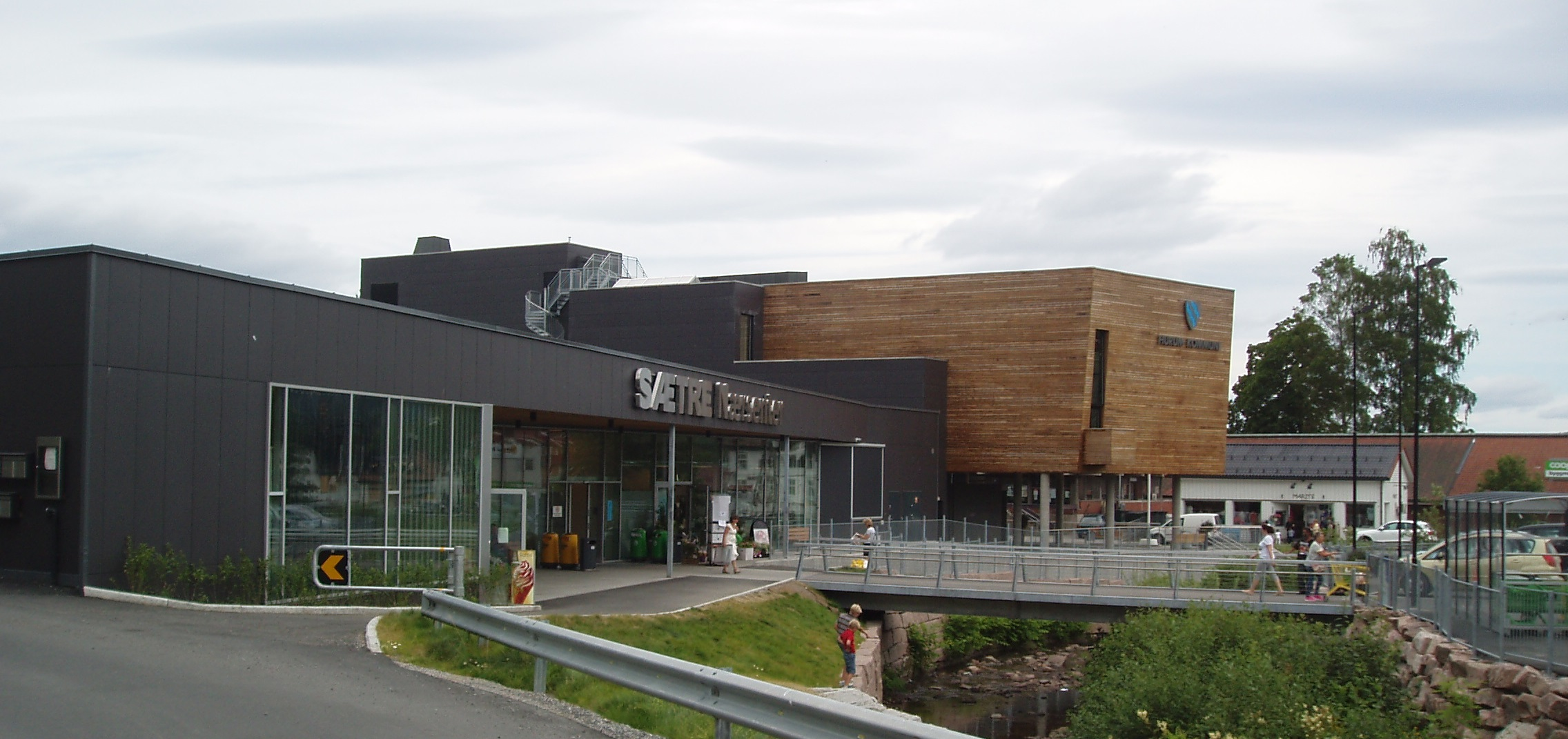 The town hall of the municipality of Hurum at Sætre, South Norway.